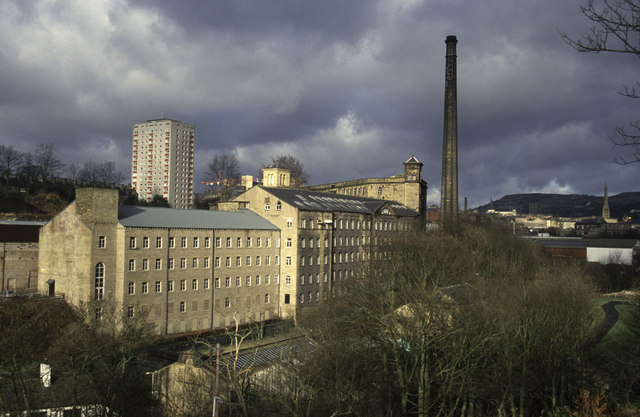 Shaw Lodge Mills The Shears public house is just visible bottom left with the boiler house roof to its right. Stunning complex and helped no end by brilliant lighting. This is a straight slide scan - no HDR here.